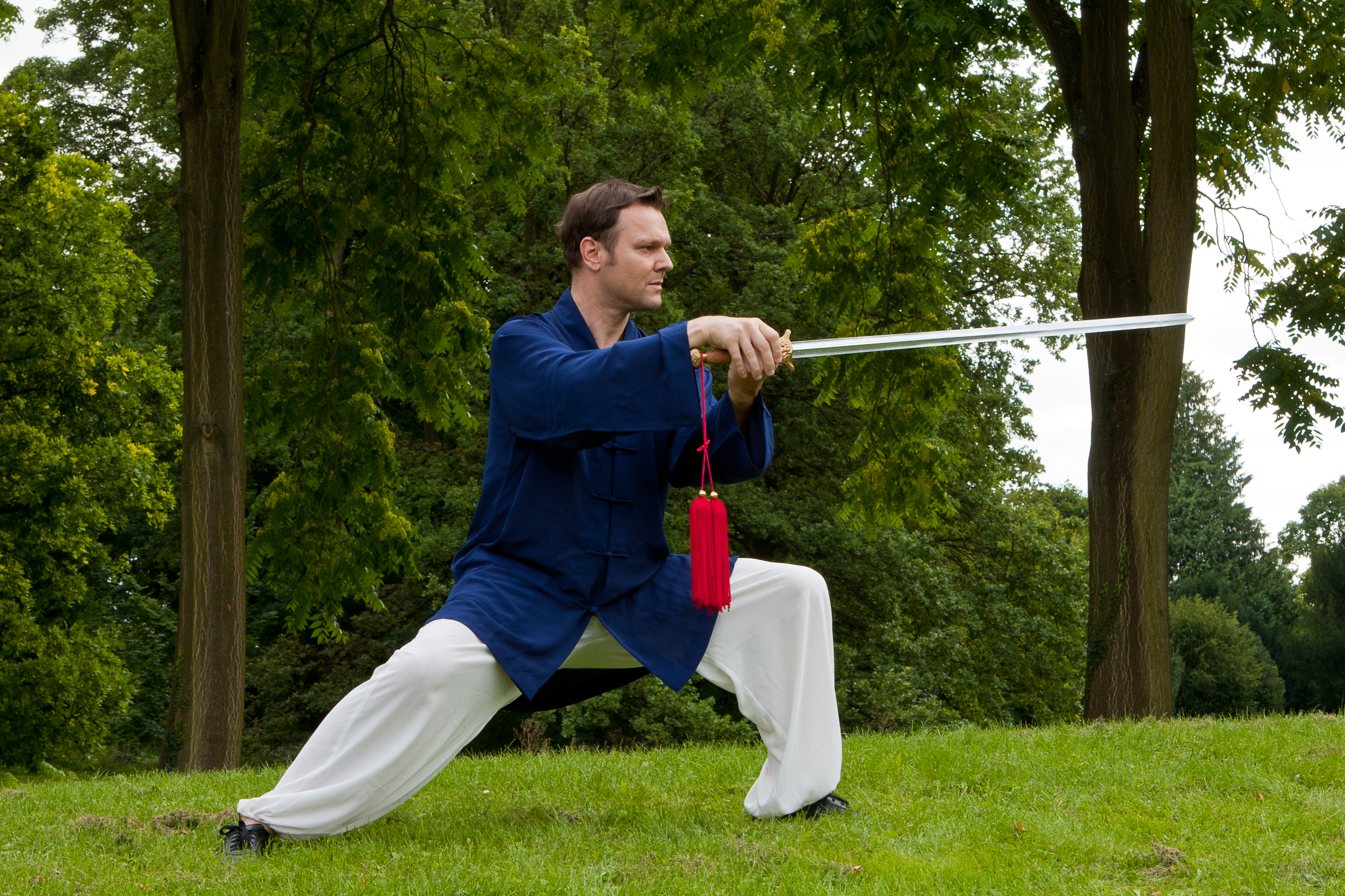 Martin Pendzialek, Master Tai Chi School Frankfurt, shows a sword-form of traditional Chen-Stil Taijiquan.